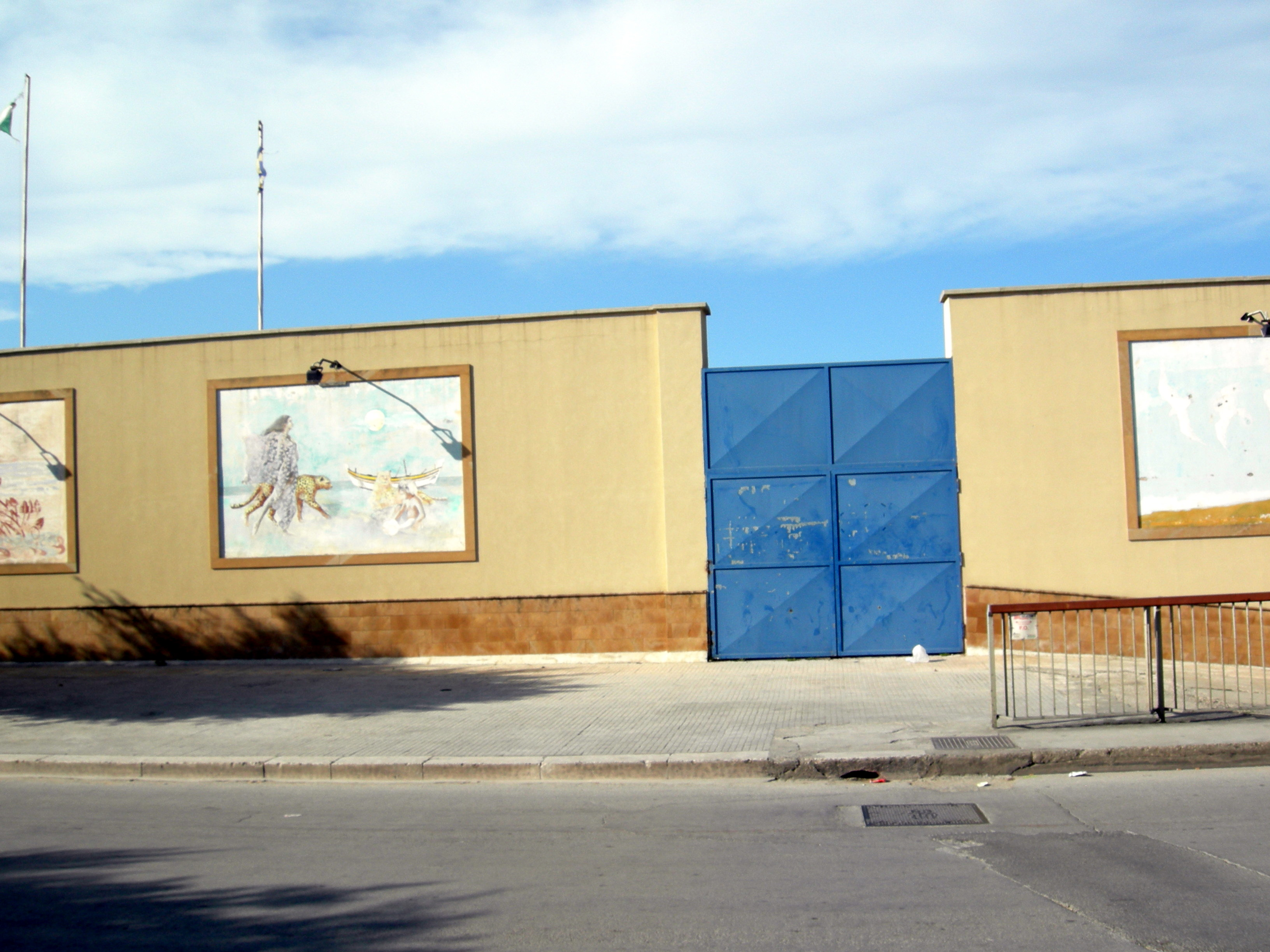 Entrance of the local "Nino Vaccara" football stadium, Mazara del Vallo, Sicily, Italy